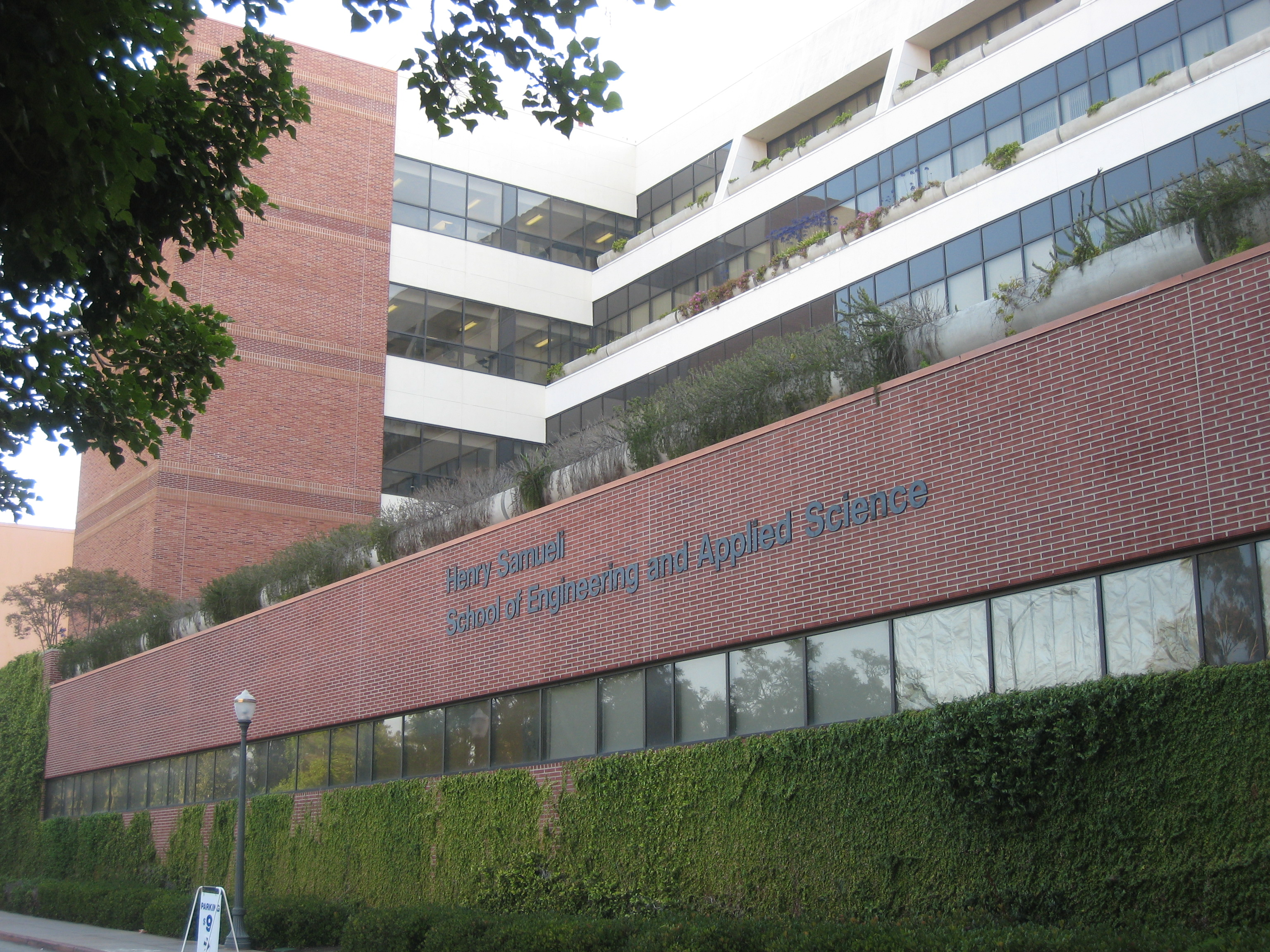 Henry Samueli Engineering building at UCLA in Los Angeles, California